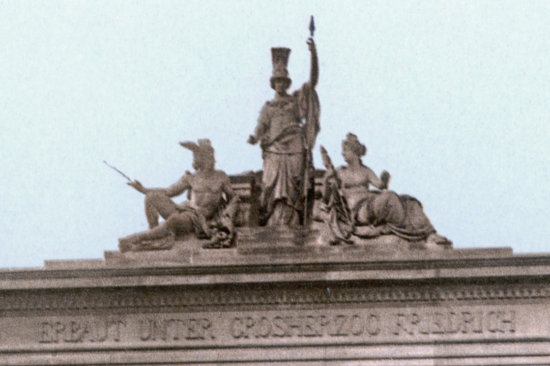 The Rhine Bridge, Mannheim, Baden, Germany